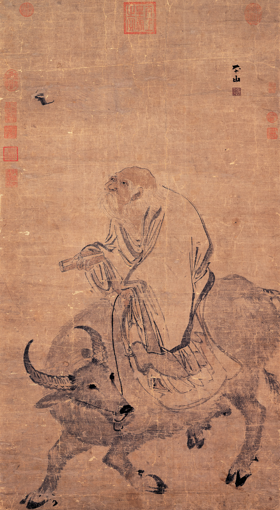 "The subject deals with the story of Laotzu riding an ox through a pass. It is said that with the fall of the Chou dynasty, Laotzu decided to travel west through the Han Valley Pass. The Pass Commissioner, Yin-hsi, noticed a trail of vapor emanating from the east, deducing that a sage must be approaching. Not long after, Laotzu riding his ox indeed appeared and, at the request of Yin-hsi, wrote down his famous Tao-te ching, leaving afterwards. This story thus became associated with auspiciousness."— National Palace Museum